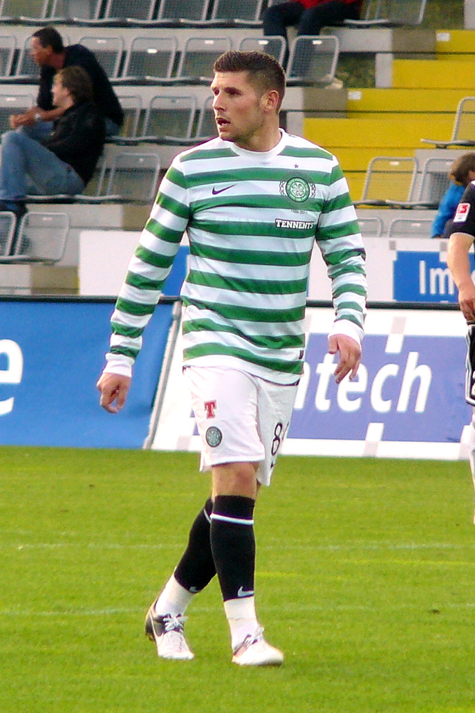 Gary Hooper, English footballer